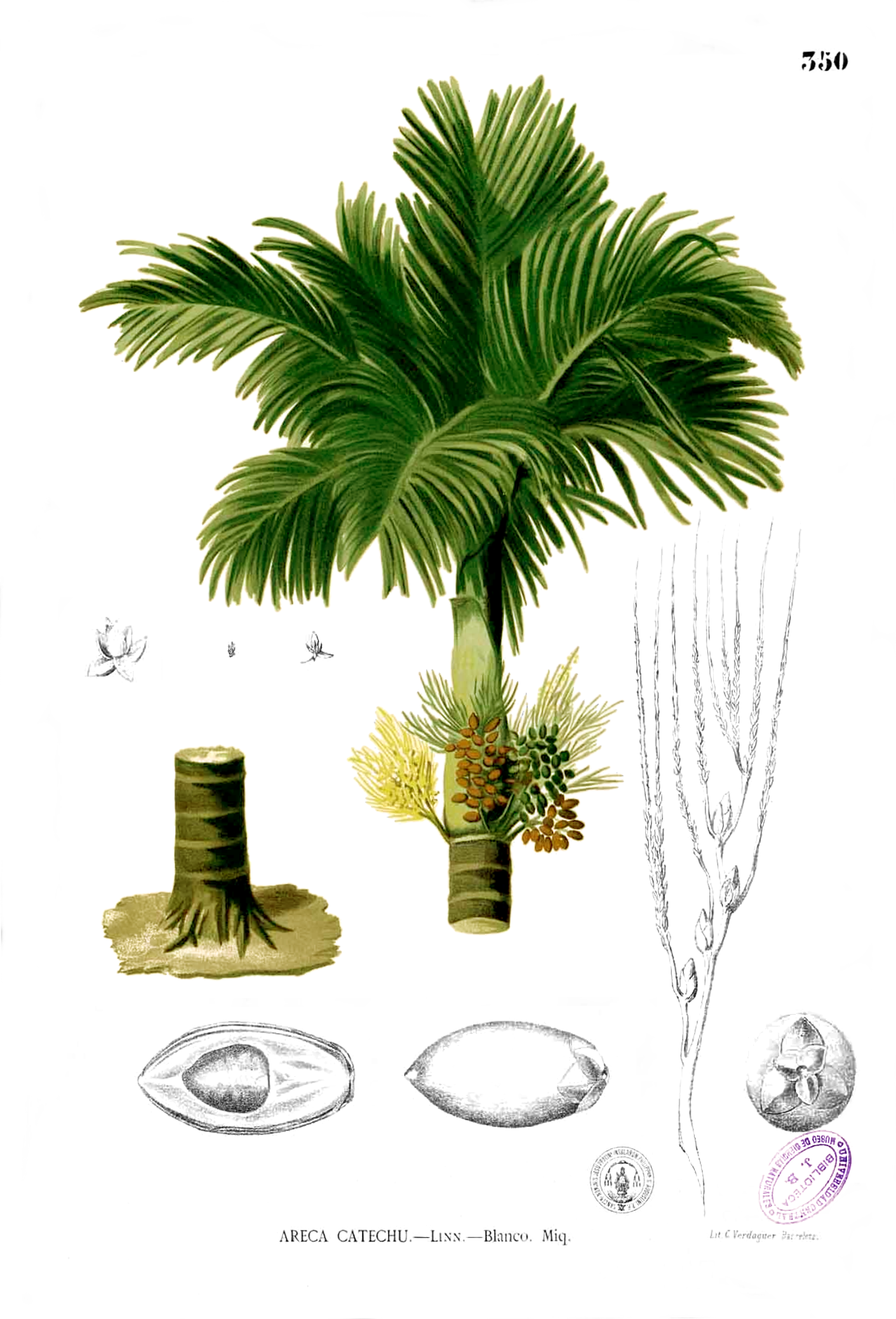 Plate from book